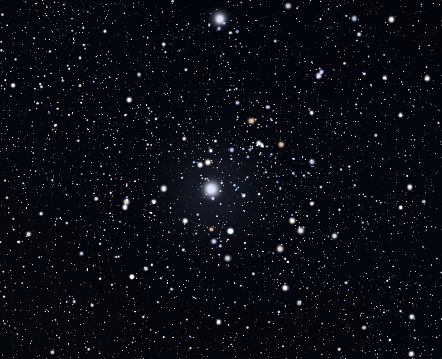 NGC 6885 (taken from Stellarium)